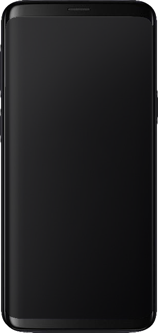 The Samsung Galaxy S9 flagship